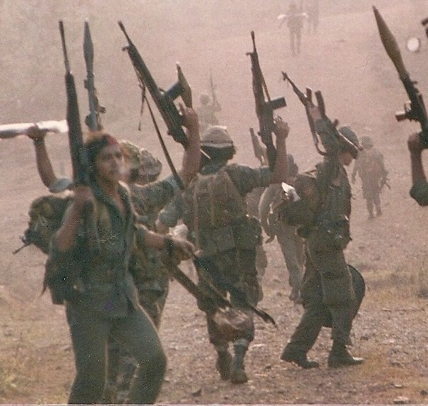 A.R.D.E. Frente Sur Commandos El Serrano Nicaragua 1987